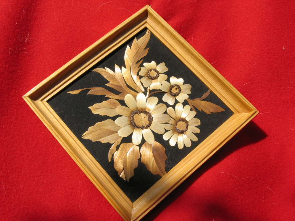 Straw marquetry Flowers